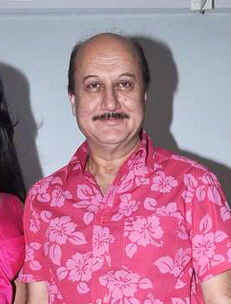 Bhairavi Goswami,Anupam Kher From The Audio release of 'Mr. Bhatti On Chutti'